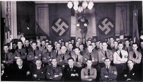 SNSP party meeting. Portrait of Birger Furugård in background.